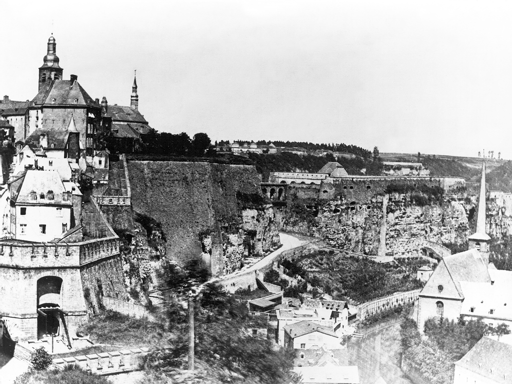 Photograph of the fortress of Luxembourg prior to demolition in 1867.